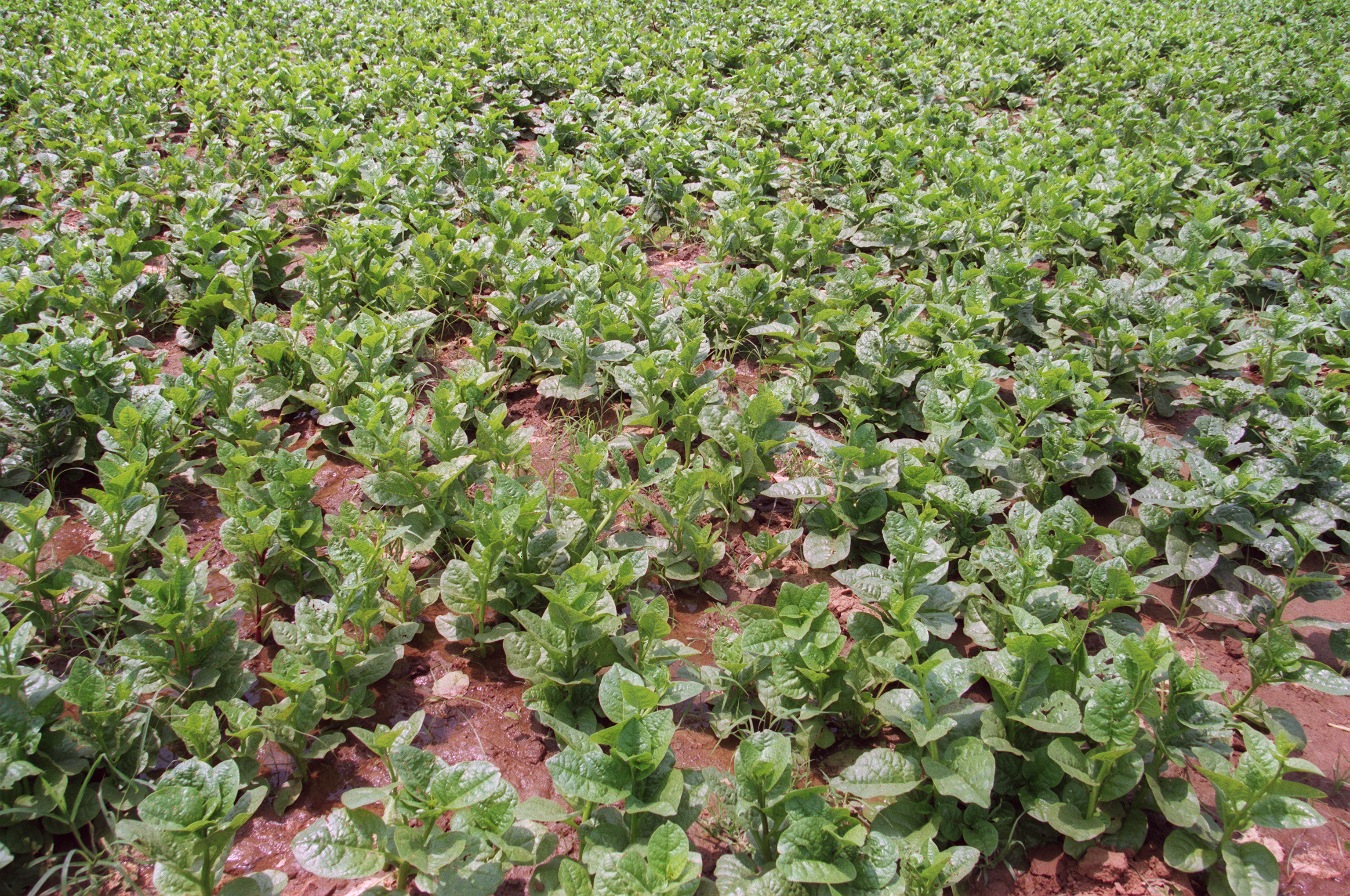 Basella alba, or Malabar spinach (also Pooi leaf, Red vine spinach, Creeping spinach, Climbing spinach) is a perennial vine found in the tropics where it is widely used as a leaf vegetable. It is a fast-growing, soft-stemmed vine. The cultivated leaf vegetables shot has been taken at Dhulagarh, Howrah, India.